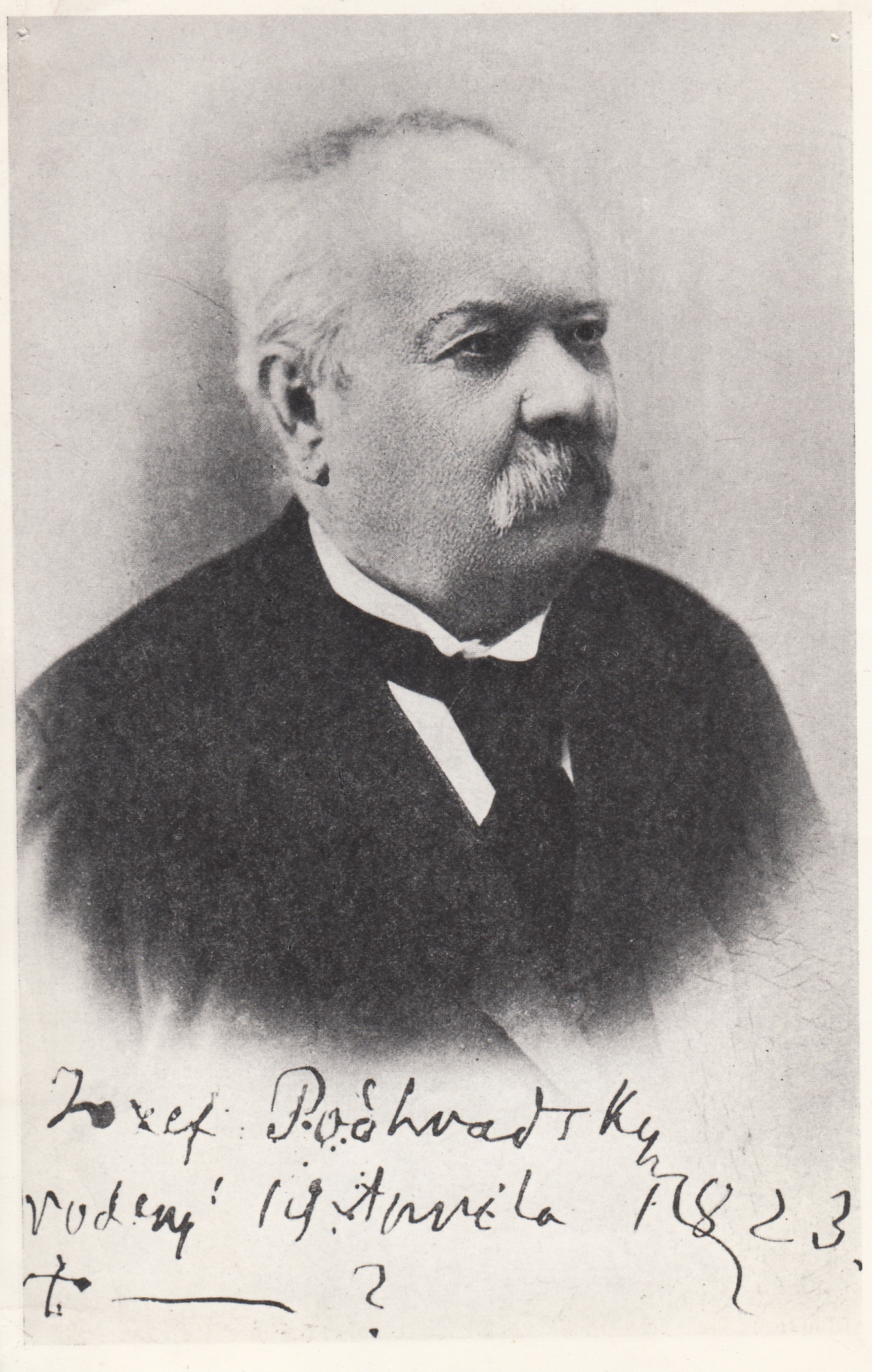 A photograph of Jozef Podhradský (1823-1915), Slovak professor, evangelical priest, newspaper editor, publicist and translator. Inventory number 3225. Srpski (latinica): Fotografija Jozefa Podhradskog (1823-1915), slovačkog profesora, evangelističkog sveštenika, urednika novina, publiciste i prevodioca. Inventarni broj 3225.